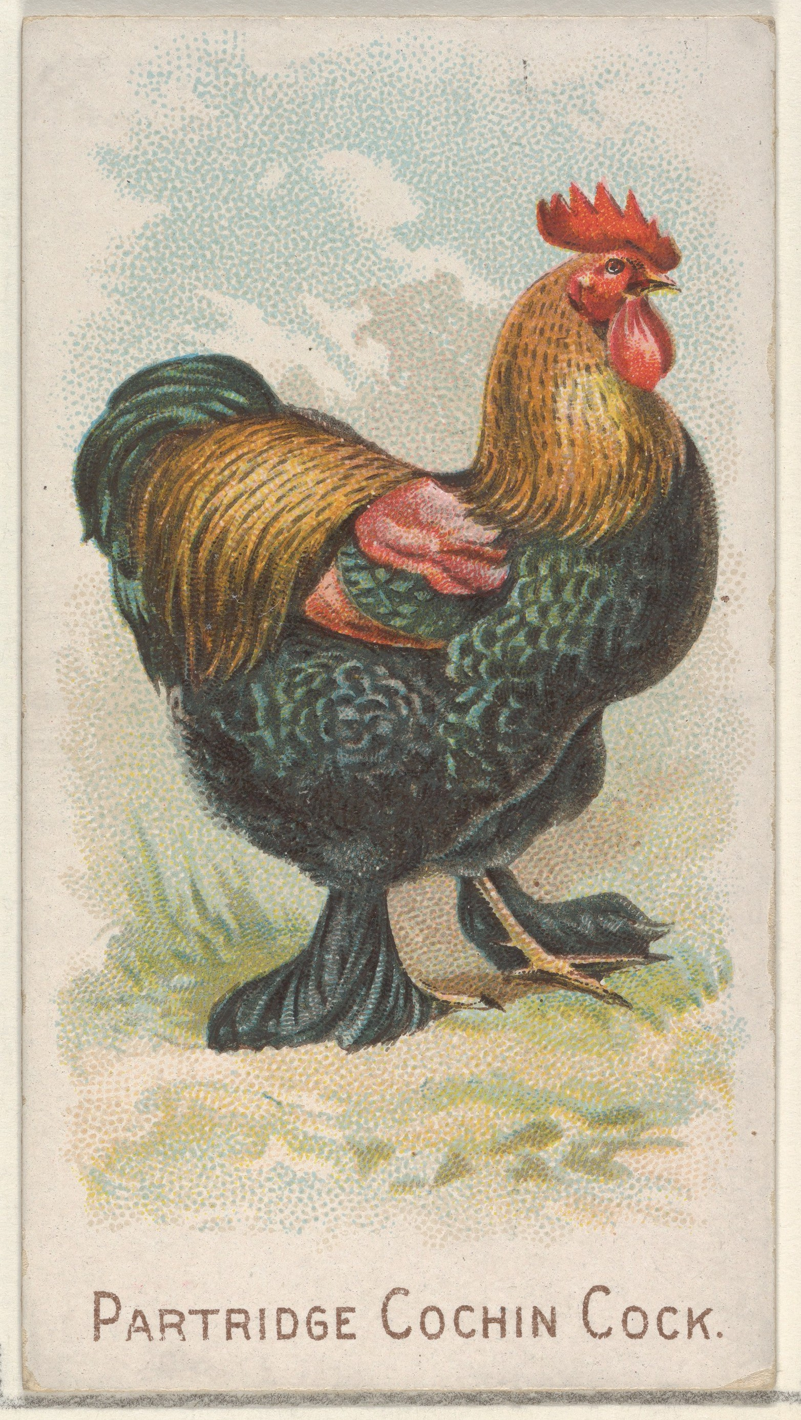 Print; Prints